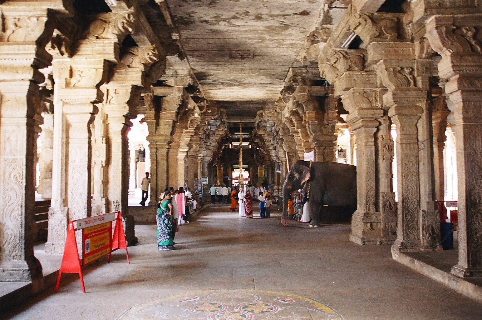 An elephant among the pillars of the Srirangam temple corridor in Trichy